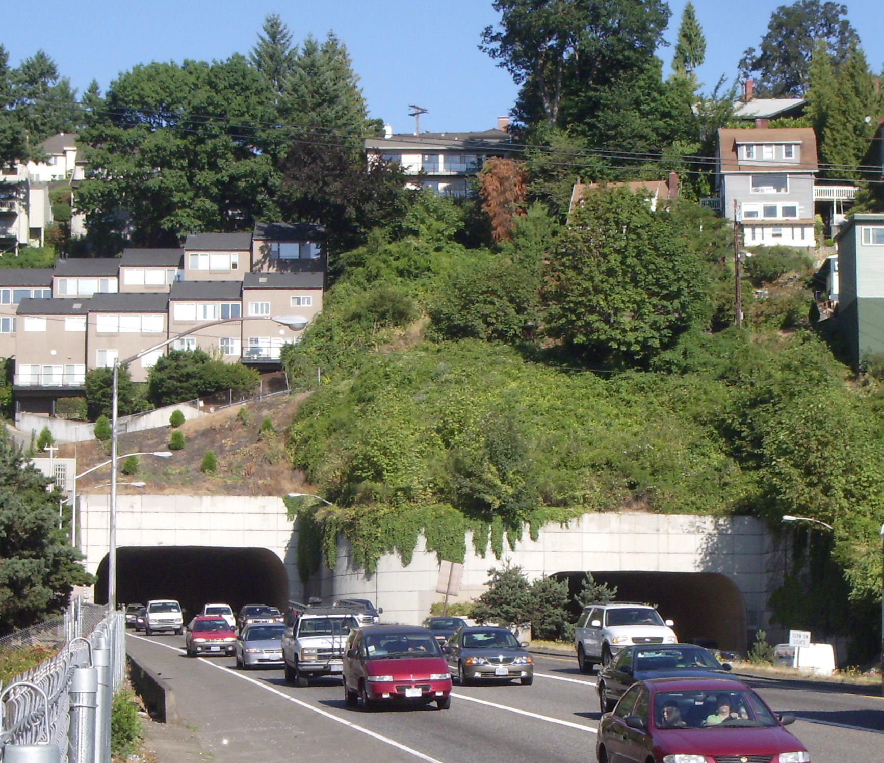 The east end of the Vista Ridge Tunnels carries Sunset Highway through Vista Ridge, a small portion of the Tualatin Mountains in Portland. The road slopes steeply downhill to downtown Portland. All six lanes separate—the outer four lanes join with I-405, the middle lanes connect to SW Market Street (eastbound) and SW Clay Street (westbound). There are less than 1000 ft (300 m) between the tunnels and the lane splits.